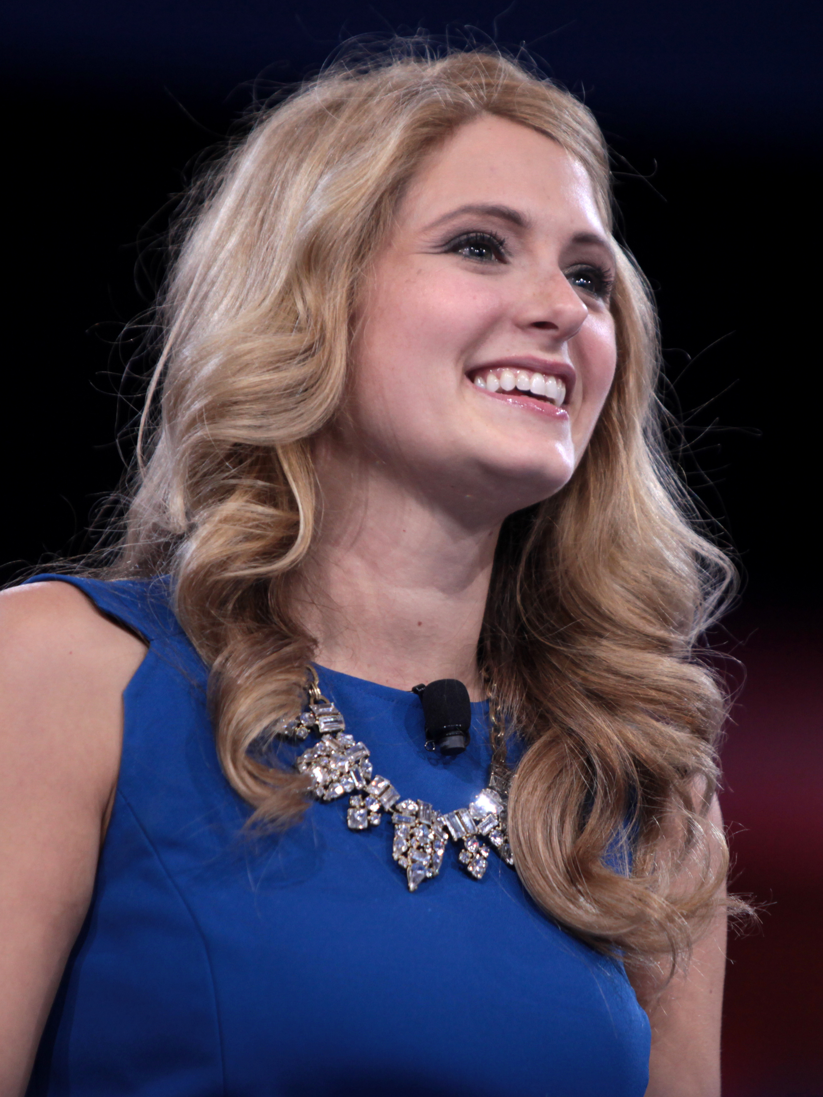 Cameron Goodman speaking at CPAC 2016 in National Harbor, Maryland.